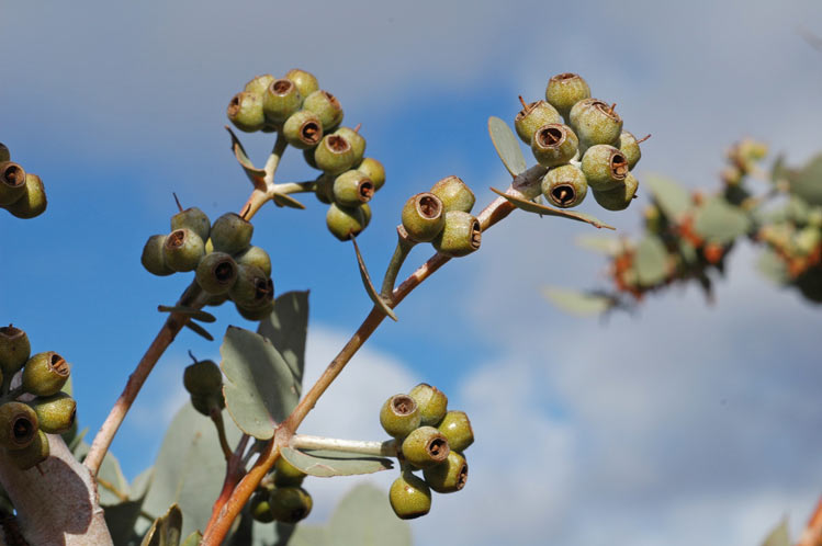 Fruit of Eucalyptus gillii taken at Living Desert flora enclosure, Broken Hill, New South Wales